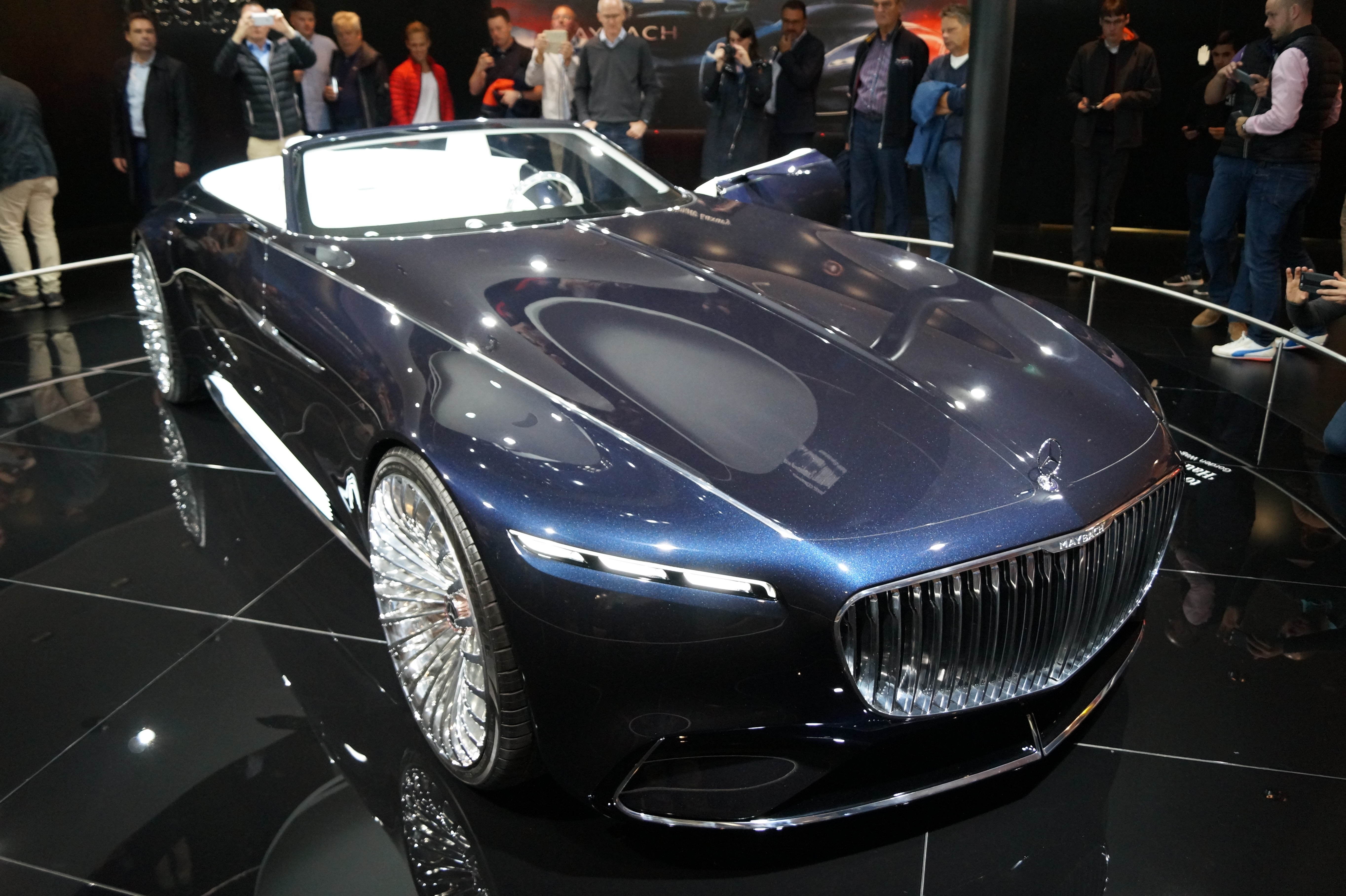 Maybach at IAA 2017